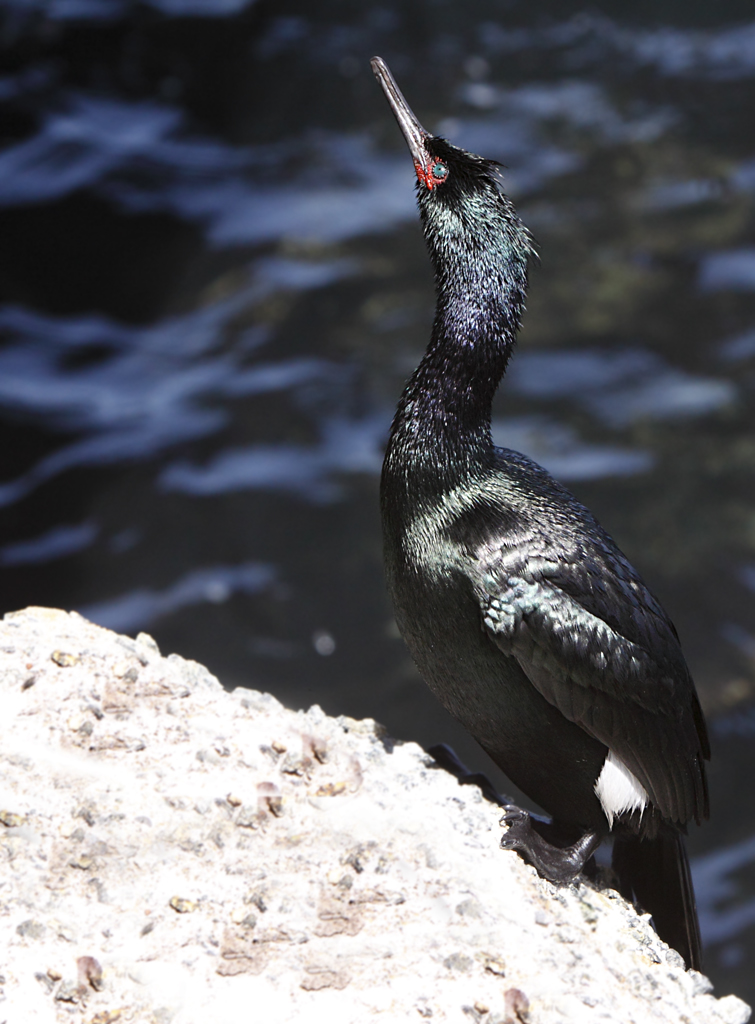 Pelagic Cormorant Phalacrocorax pelagicus in full breeding plumage, Monterey Bay, California.